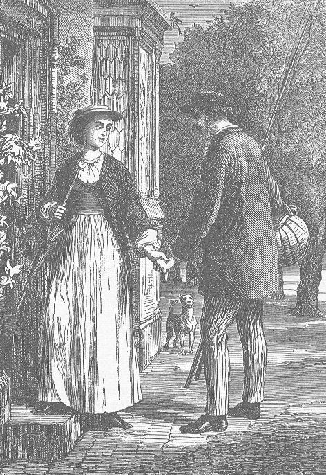 Original ilustration from Lorenze Froelicha to novel J. Verna "Dr. Ox's Experiment".